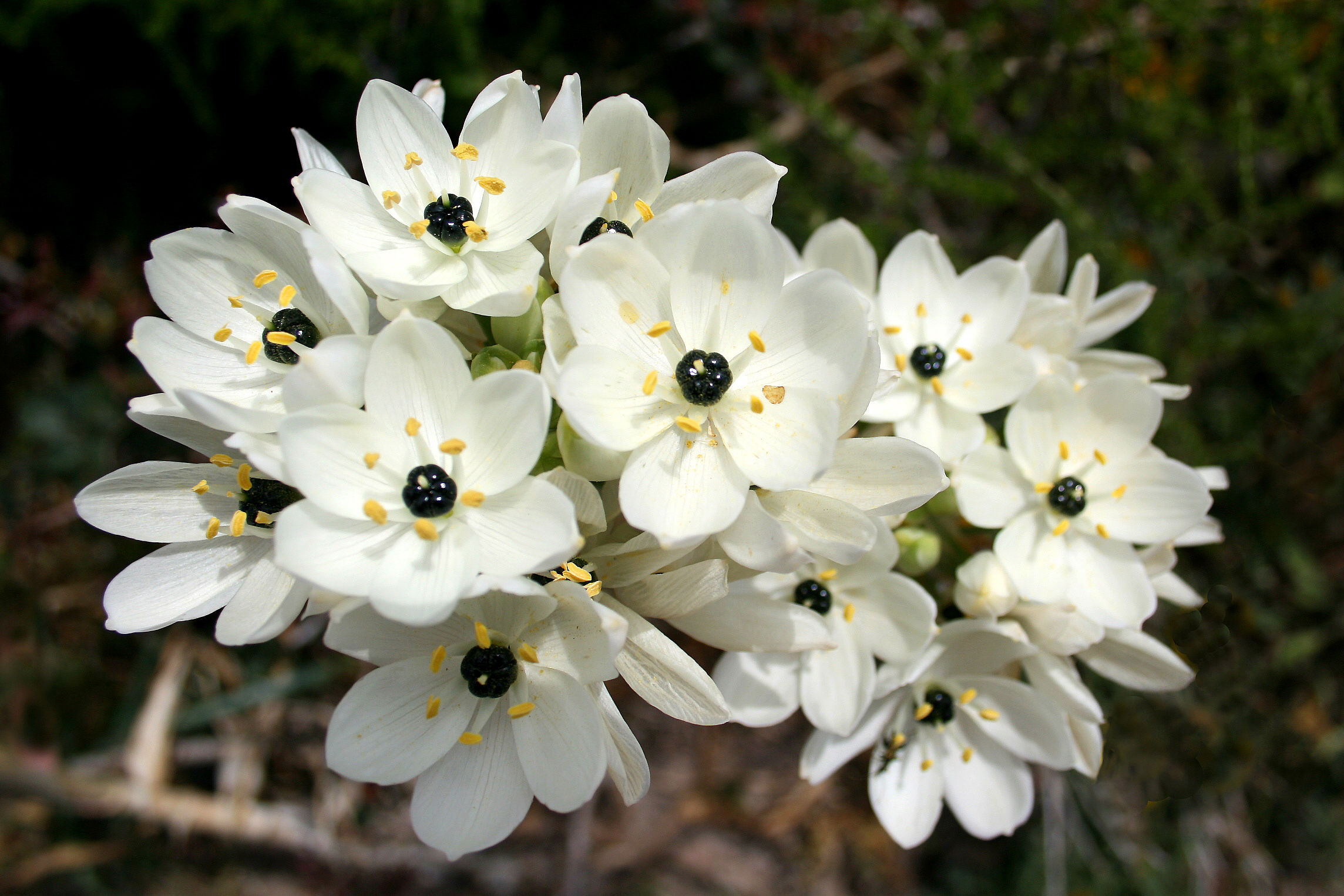 Arabian Star Flower ( Ornithogalum arabicum ) - Habit: Bonifacio ( Corse-du-Sud) - France, place de l’Europe. Walon: Ornitogale d’Arabîye ( Ornithogalum arabicum ) - Place: Bonifacio (Corse-do-Sud) - France, place di l’Europe.